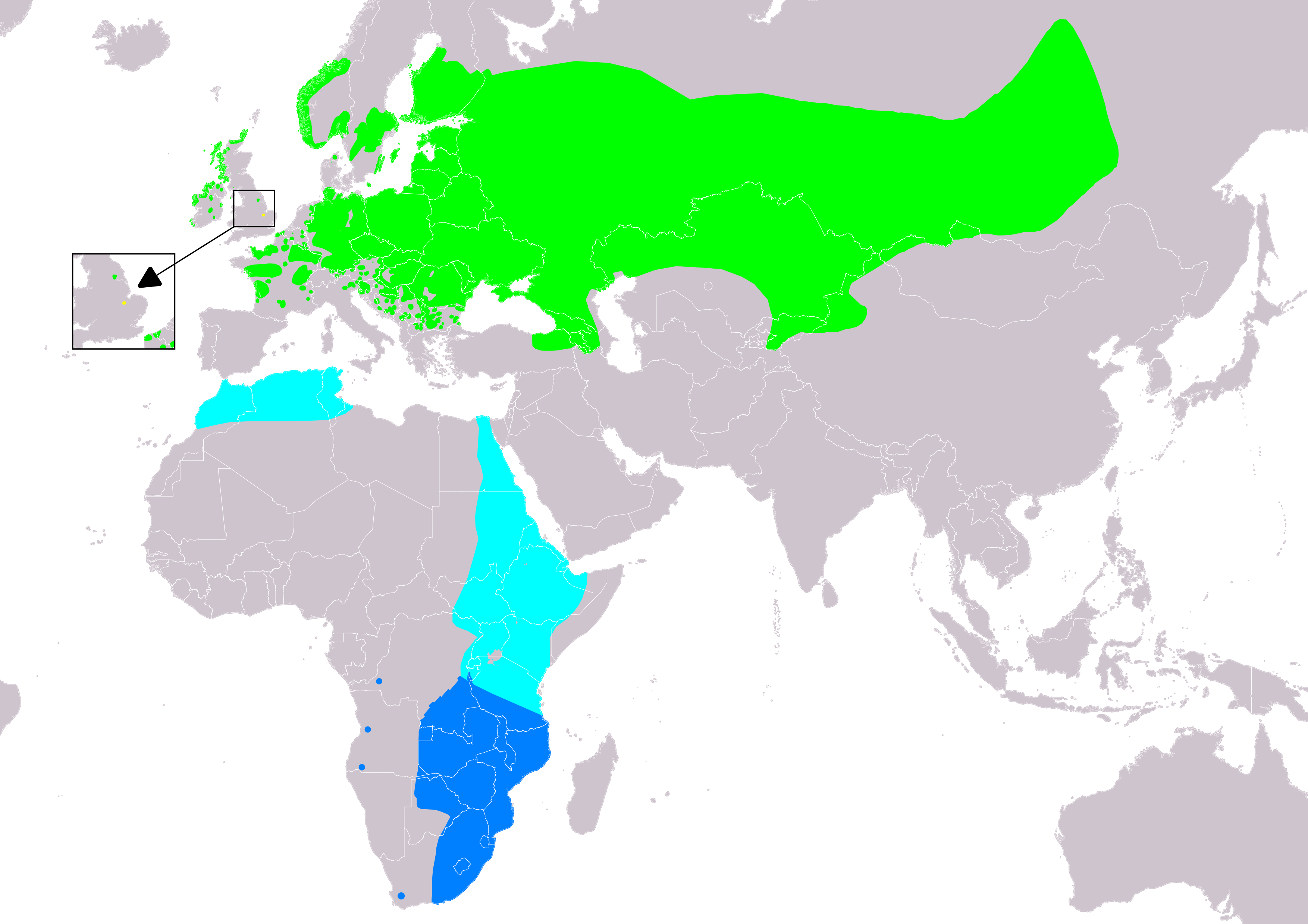 Distribution map of corncrake (Crex crex) according to IUCN version 2019-3 ; key: Legend: Extant, breeding (#00FF00), Extant, passage (#00FFFF), Extant, non-breeding (#007FFF), Extant & Reintroduced (breeding) (#FFFF00)